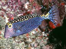 Ostracion meleagris found in Guam's reefs. Category:Images of Guam